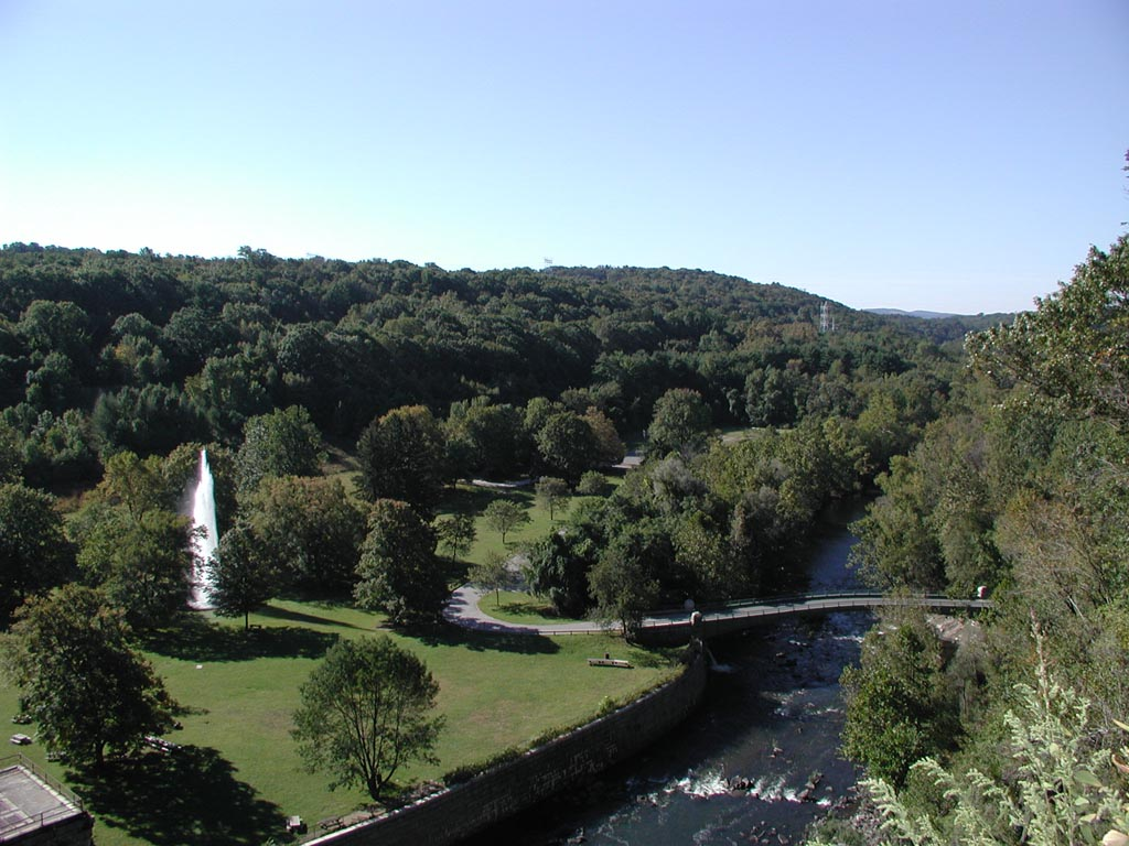 Photo of Croton Gorge Park with high pressure fountain operating, taken from the New Croton Dam by Charles H. Bennett on September 22, 2000, shortly after the fountain's reopening following several decades of disuse.